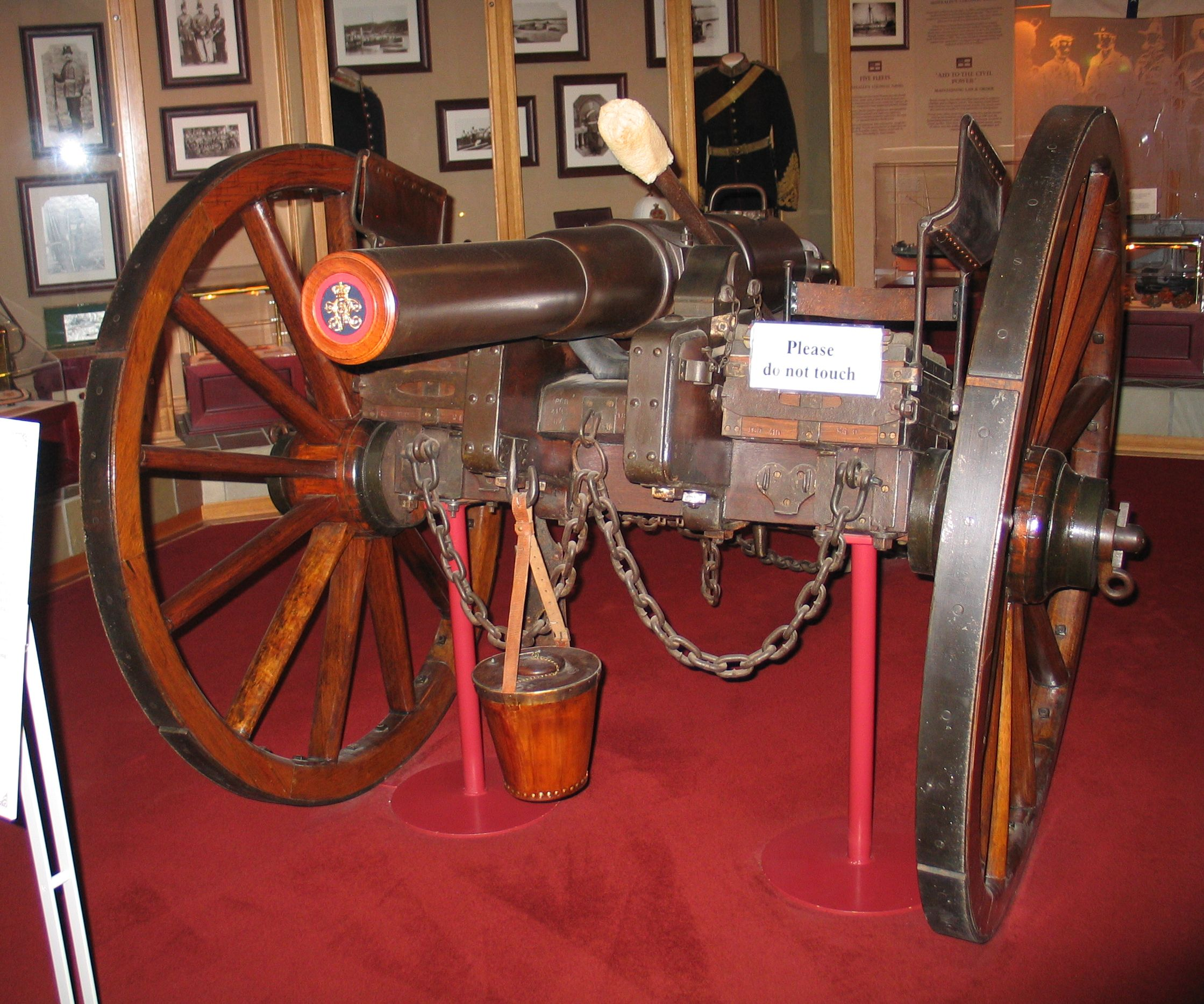 12 pounder rifled breechloader field gun, displayed in Australian War Memorial, Canberra, Australia. The gun is one of the bunch of six pieces purchased from the Royal Gun Factory in 1864. Australian War memorial exhibit ID Number: REL30087 Title: Armstrong 12 Pounder RBL Field Gun : Victorian Horse Artillery Maker: Royal Gun Factory Object type: Artillery Place made: United Kingdom: England Date made: 1864; c 1859 Physical description: Steel; Wood; Brass; Restored Armstrong Model 1859 12 Pounder RBL Field Gun rebuilt to its 1880's configuration. Most of the steelwork is original, as is the brown patina. The brass sights, the brass sight locking handles, leatherwork, cloth parts and all of the timberwork, including the trail and the wheels, are replica parts. These parts are stamped with an identifying mark 'HV/R'. The serial number of the gun is 367 and the carriage is numbered 410. The calibre is 3 inches (75mm). It is in full operational order except for the screw breech mechanism which is frozen. Summary: This Armstrong 12 Pounder RBL Field Gun is one of the four surviving guns of the six 1864 Armstrong guns that were purchased by the Colony of Victoria to equip its horse artillery units. It is believed that it was used as a drill training weapon until the First World War. This type of field gun was first introduced into British Army Service in 1859 and was one of the first practical breech loading field guns of the modern era. It was also the first artillery weapon used in Australia with an on-carriage traverse. The gun was able to fire shrapnel, case shot or explosive shells and was considered to be one of the most accurate of the period.